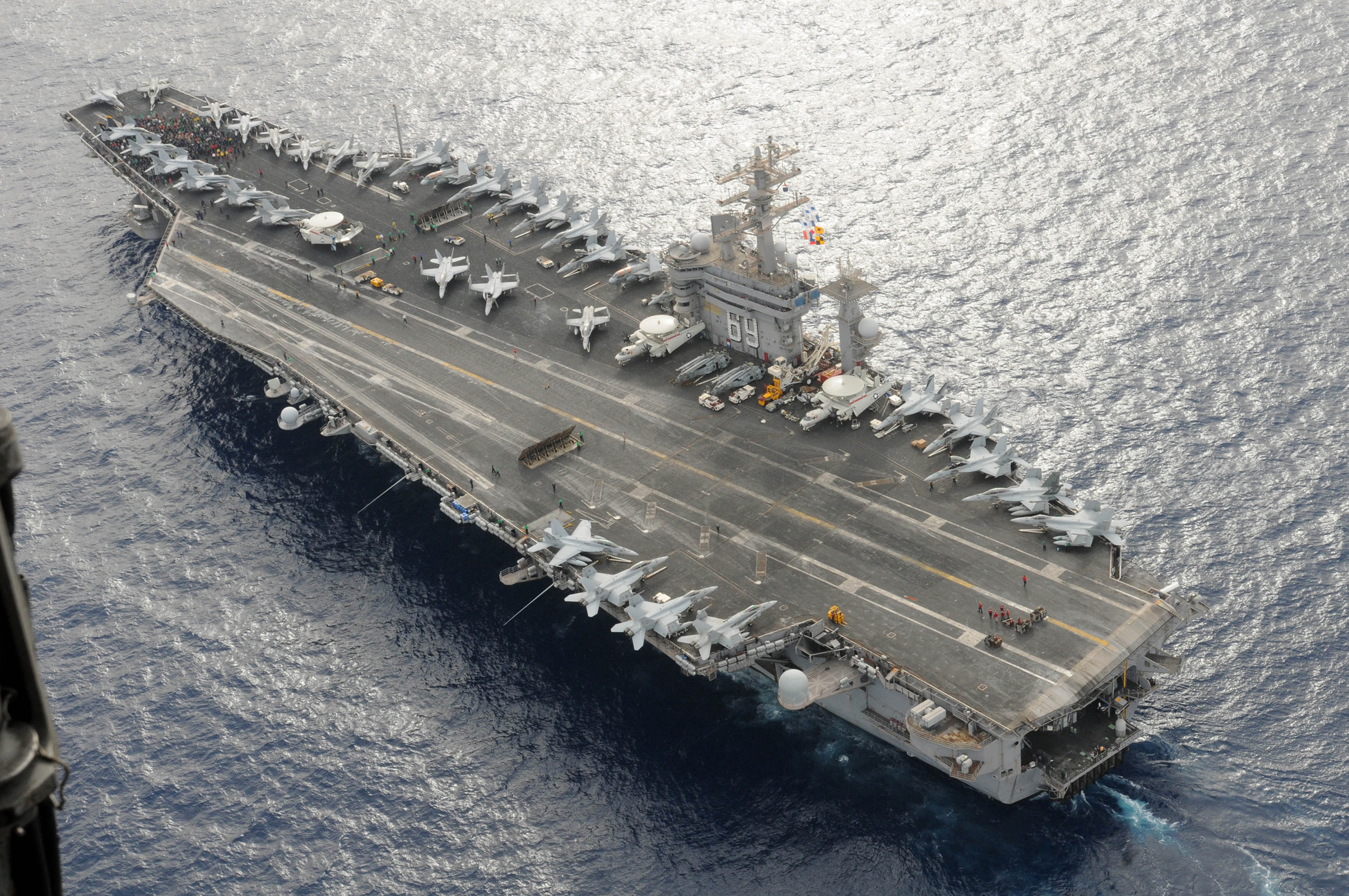 ARABIAN SEA (June 26, 2010) Sailors aboard the Nimitz-class aircraft carrier USS Dwight D. Eisenhower (CVN 69) gather at the bow of the ship for a foreign object debris walk-down. The Eisenhower Carrier Strike Group is deployed as part of an ongoing rotation of forward-deployed forces to support maritime security operations in the U.S. 5th Fleet area of responsibility. (U.S. Navy photo by Mass Communication Specialist 3rd Class Shonna Cunningham/Released)